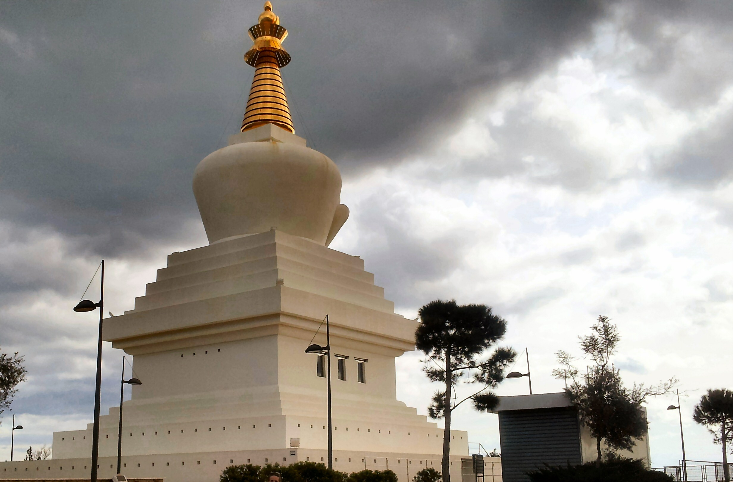 Benalmádena Stupa is a stupa in Benalmádena, Málaga in the Andalusian region of southern Spain, overlooking the Costa del Sol. It is 33 metres high and is the largest stupa in Europe. It was inaugurated on the 5th October 2003, and was the final project of Buddhist master Lopon Tsechu Rinpoche.